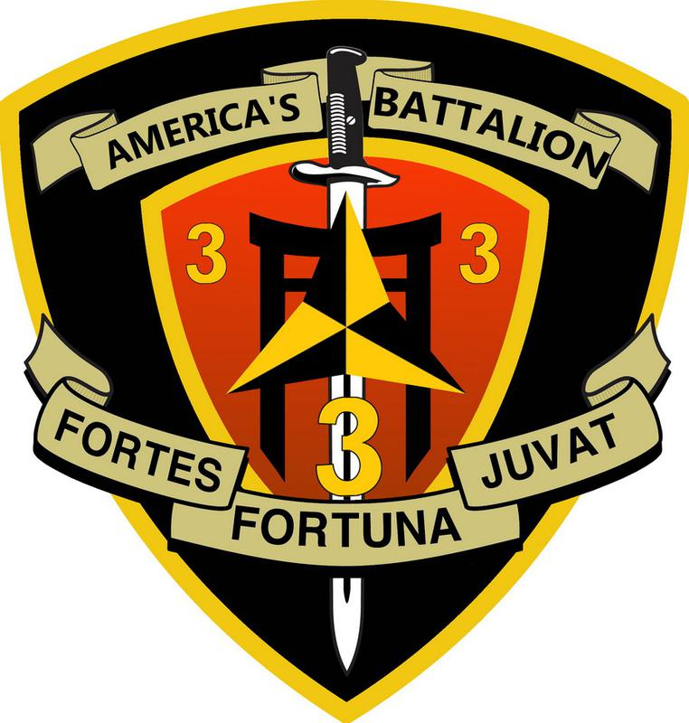 Battalion logo as of February 2017